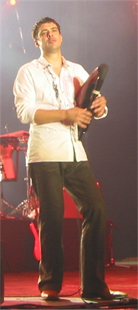 José Angel Hevia in Lorient, Brittany in 2003